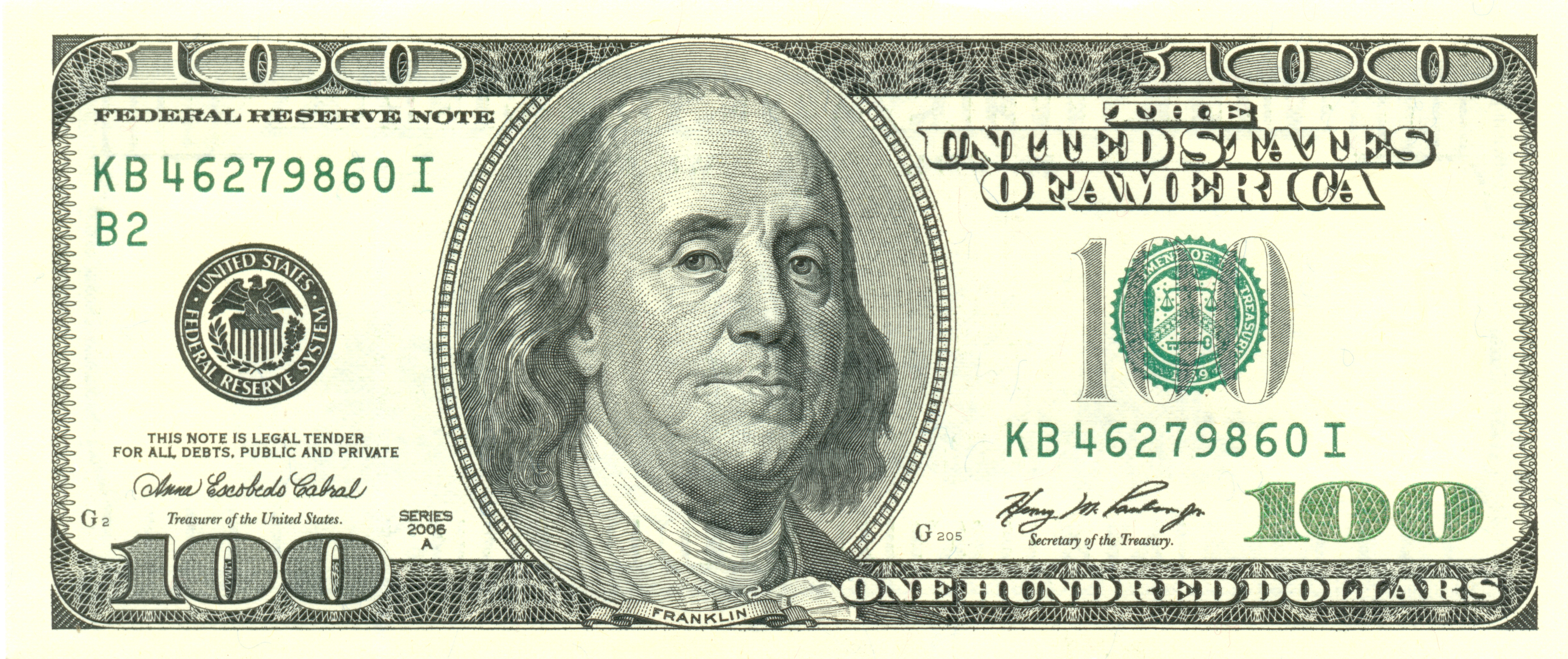 Front of the U.S. $100 Federal Reserve note. Obverse of the series 2003A $100 Federal Reserve Note The Series 1996 $100 bill (see file history) was the first to undergo design changes.